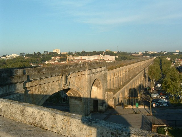 Aqueduc of the Peyrou, Montpellier, France.